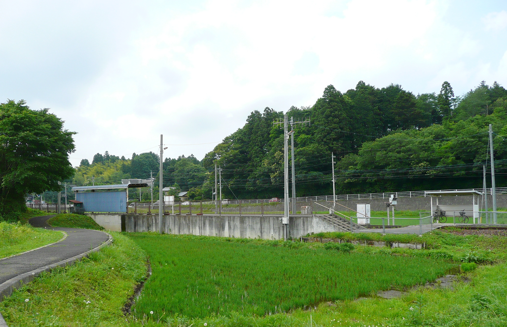 Sasaharada Station,Moka Railway.